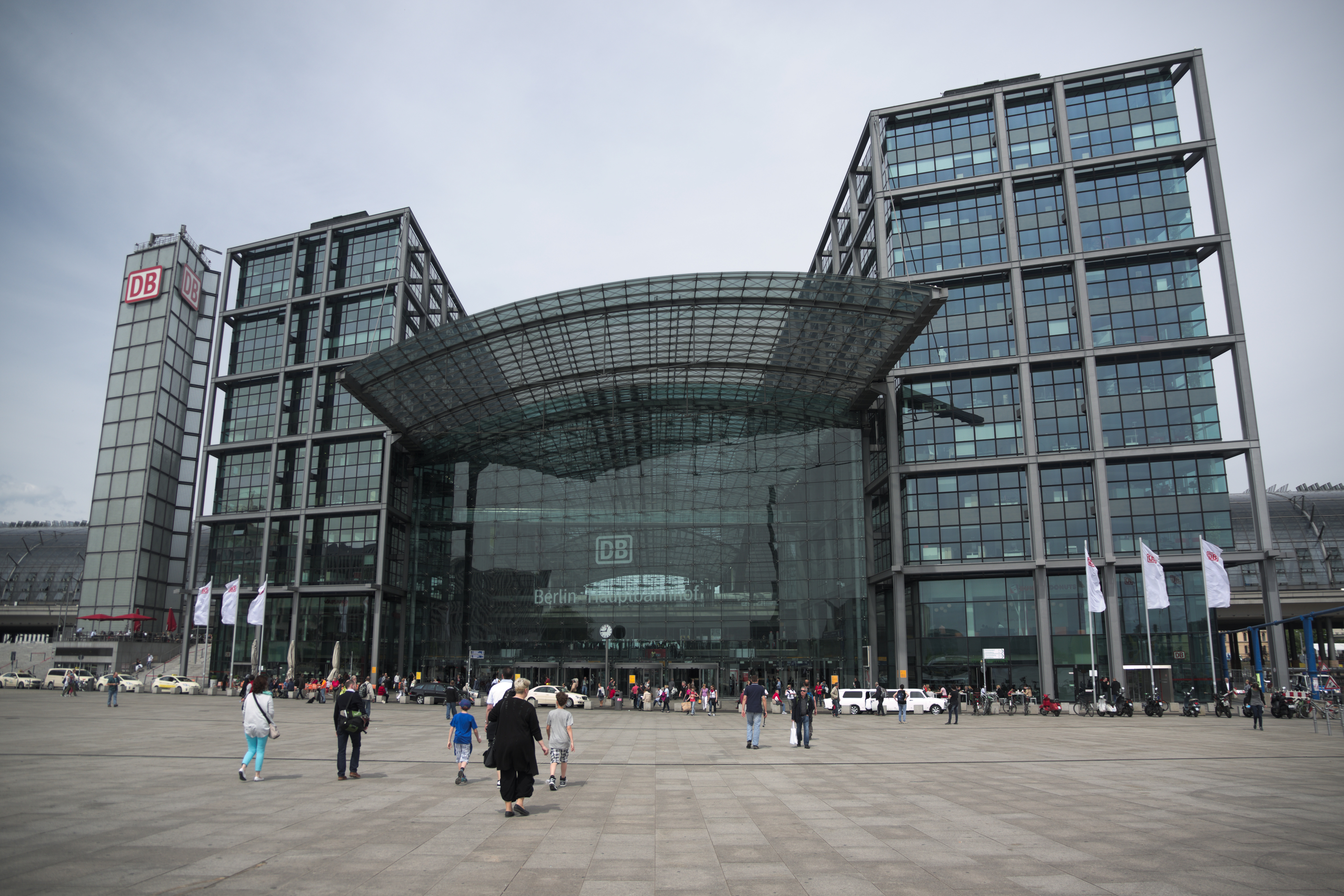 Wikimedia Conference 2015 photo by Pine